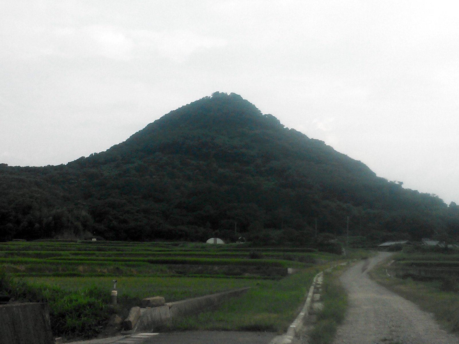 Mt. Shirayama North side at Miki,Kagawa.